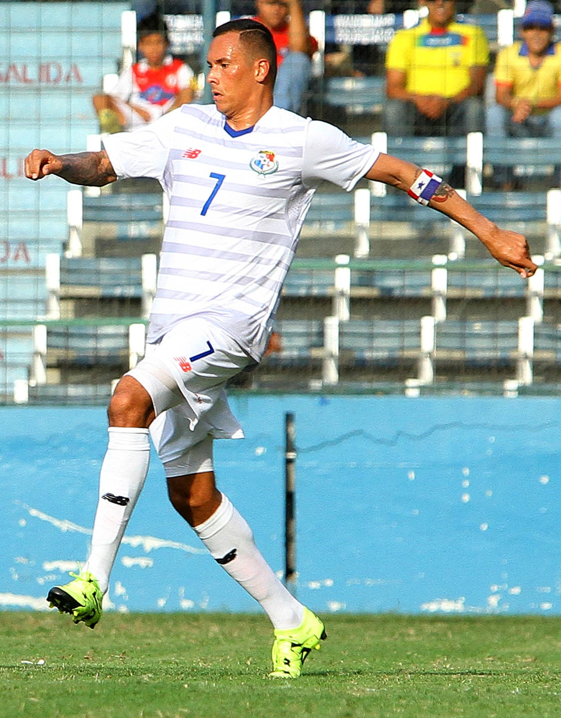 Guayaquil, 06 de jun (Andes).-En el estadio George Capwell, la selección de fútbol de Ecuador se enfrenta a Panamá en partido amistosoFoto: César Muñoz/Andes Blas Pérez